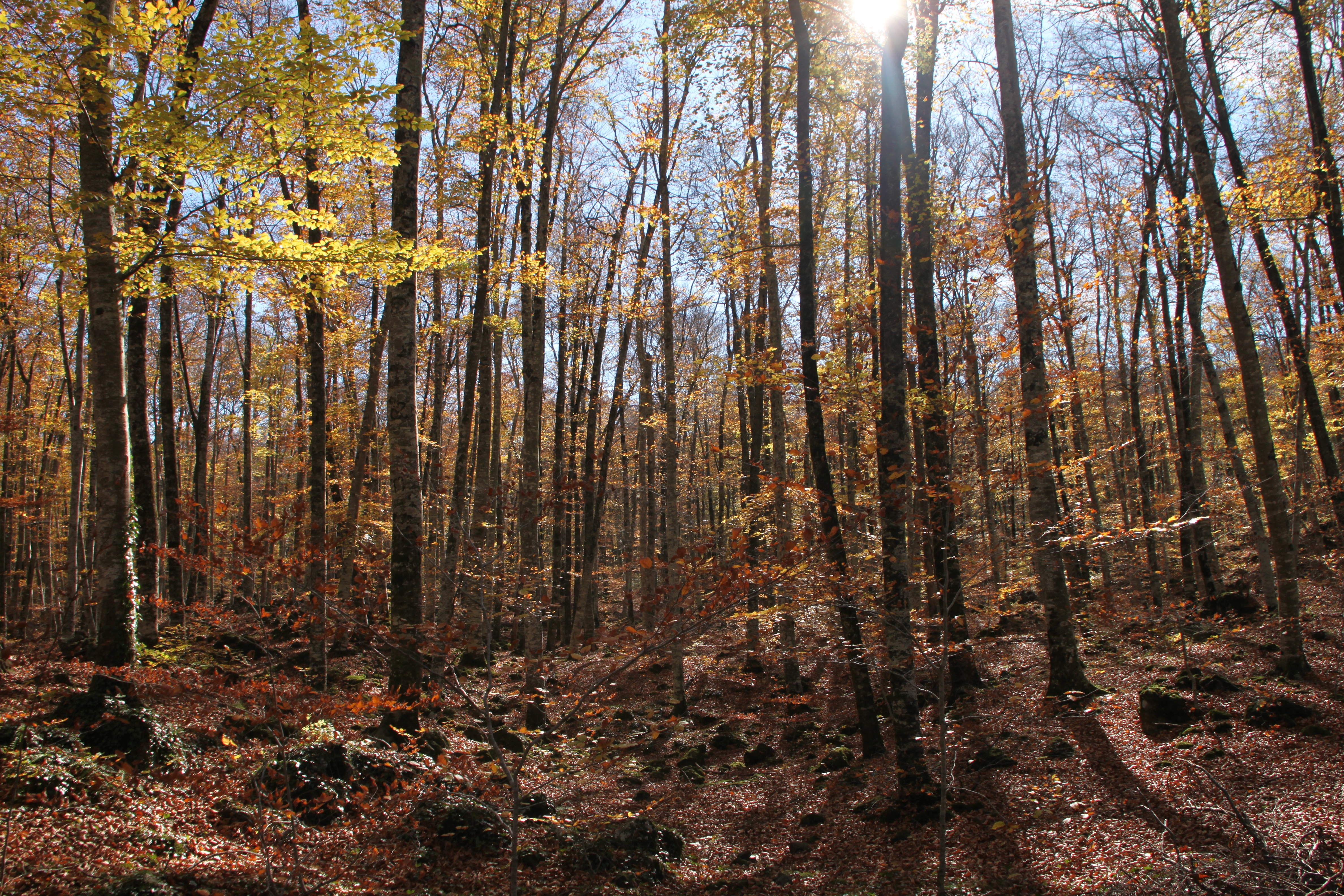 La Fageda d'en Jordà, European Beech wood situated in Santa Pau, la Garrotxa, Catalonia.